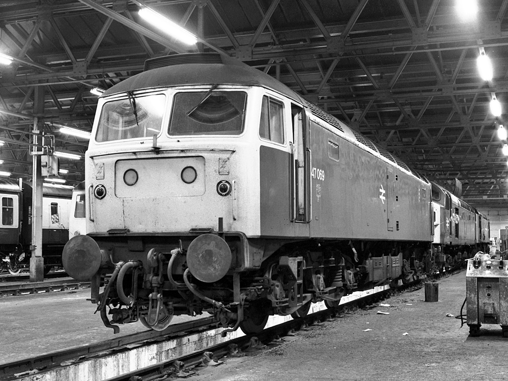 British Railways Brush Type 4 Co-Co class 47/0 diesel-electric locomotive number 47069 of Crewe Diesel TMD stands inside the South shed at Longsight Diesel Traction Maintenance Depot, Manchester with British Railways English Electric Type 4 1Co-Co1 class 40 diesel-electric locomotive number 40143 of Crewe Diesel TMD and British Railways Type 2 Bo-Bo class 25/2 diesel-electric locomotive number 25198 of Longsight Diesel TMD behind. Thursday 8th December 1983